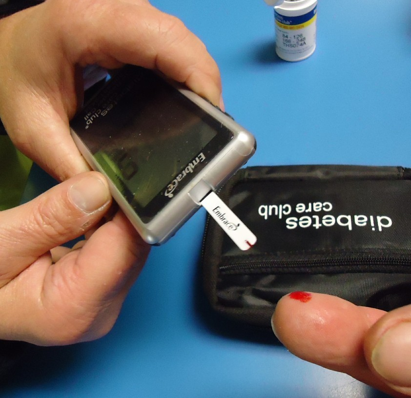 A person testing their glucose levels using an electronic device after taking a tiny sample of blood from a finger.